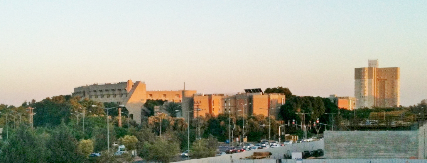 Shchuna C, Beersheba